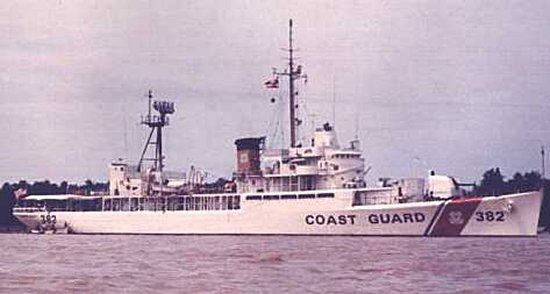 United States Coast Guard cutter USS Bering Strait (WAVP-34), later WHEC-382